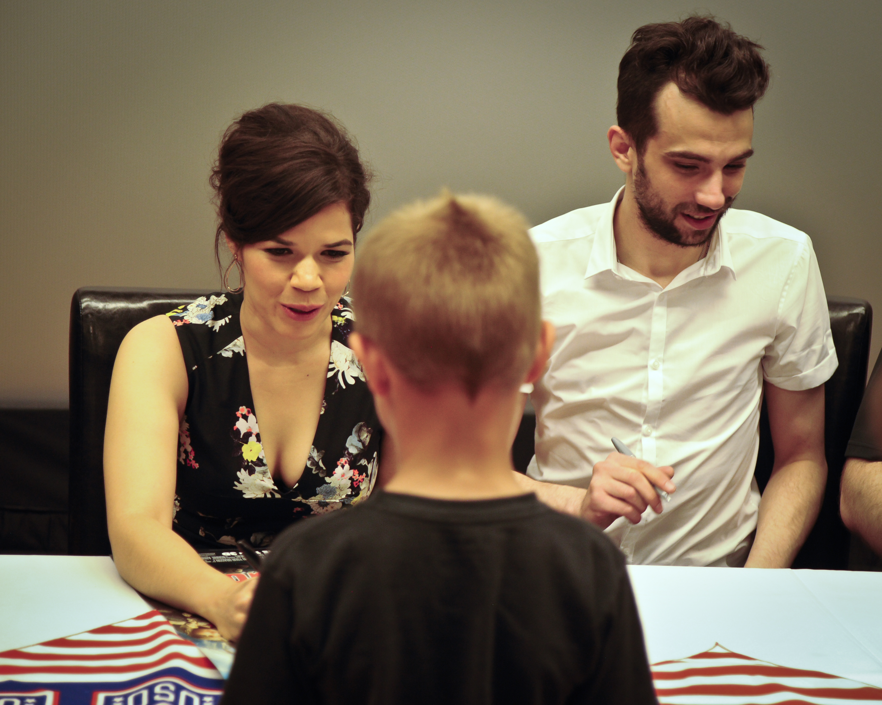 America Ferrara and Jay Baruchel, voices of characters in the new movie “How to Train Your Dragon 2”, sign autographs during a USO tour June 4, 2014, at Joint Base McGuire-Dix-Lakehurst. The tour allowed military families the ability to view the new movie a week early, ask cast members questions and get autographs. (U.S. Air Force photo by Staff Sgt. Scott Saldukas/ Released)